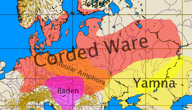 The Corded Ware culture (also Battle-axe culture) is an enormous Chalcolithic and Early Bronze Age archaeological grouping, flourishing ca. 3200 - 2300 BC. It encompasses most of continental northern Europe from the Rhine River on the west, to the Volga River in the east, including most of modern-day Germany, Denmark, Poland, the Baltic States, Belarus, the Czech Republic, Slovakia, northern Ukraine, and western Russia, as well as southern Sweden and Finland, It receives its name from the characteristic pottery of the era; wet clay was decoratively incised with cordage, i.e., string. It is known mostly from its burials. by User:Dbachmann, based on Image:Europe 34 62 -12 54 blank map.png.